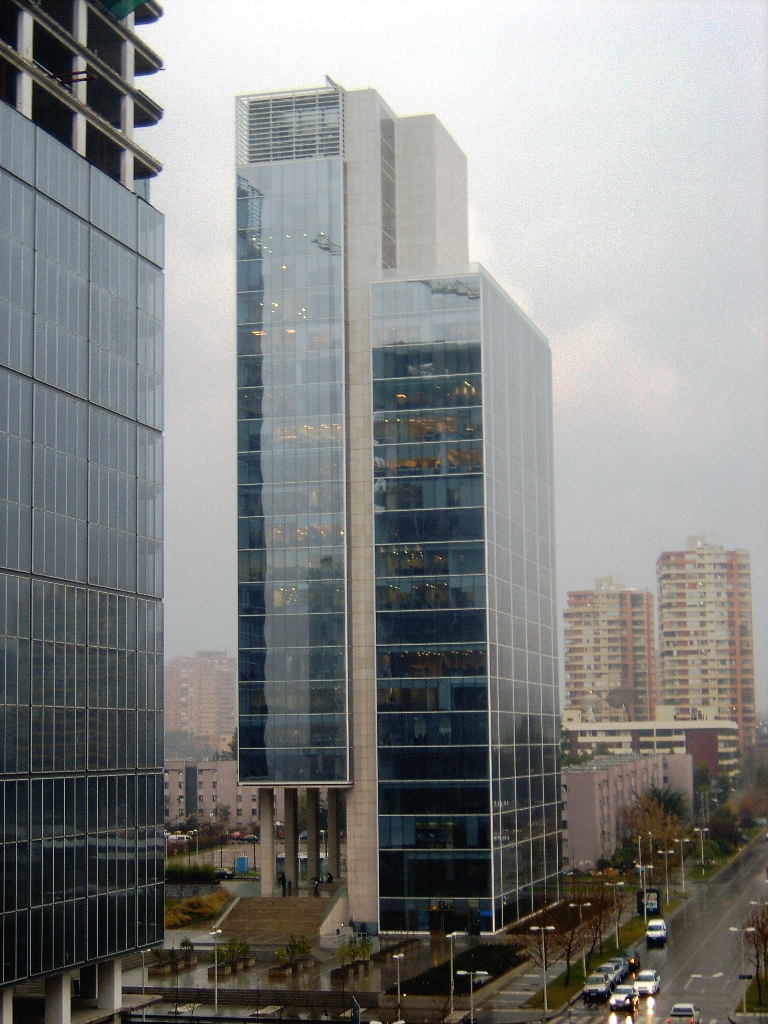 Cerro el Plomo Street in Santiago, Chile